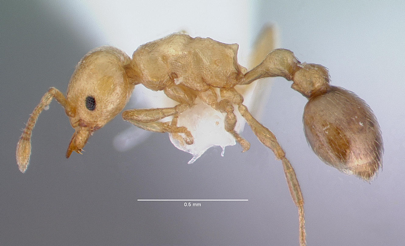 Profile view of ant Cardiocondyla wroughtonii specimen casent0000503 (ergatoid male).